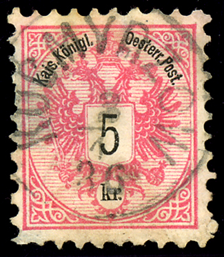 Austrian KK stamp, issue 1883, cancelled in 1886 at KOCMYRZOW (Galicia, Poland)